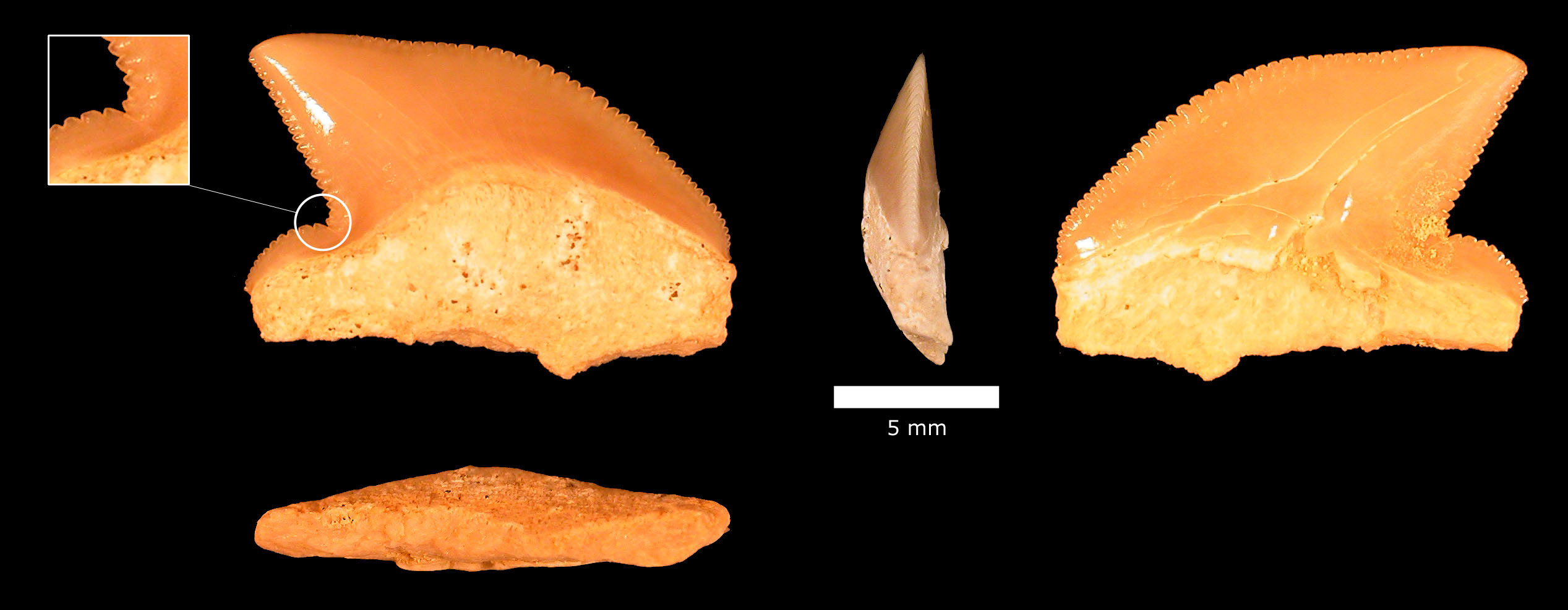 Squalicorax kaupi tooth from the Menuha Formation, Makhtesh Ramon region, southern Israel.